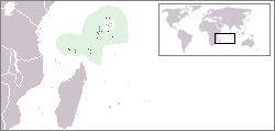 Location map of the Outer Seychelles Islands (Coralline Seychelles) coral archipelago of the Seychelles islands and nation. Located in the Indian Ocean — primarily south and west of the granitic Inner Seychelles archipelago, which is generally more mountainous, humid, and populated.